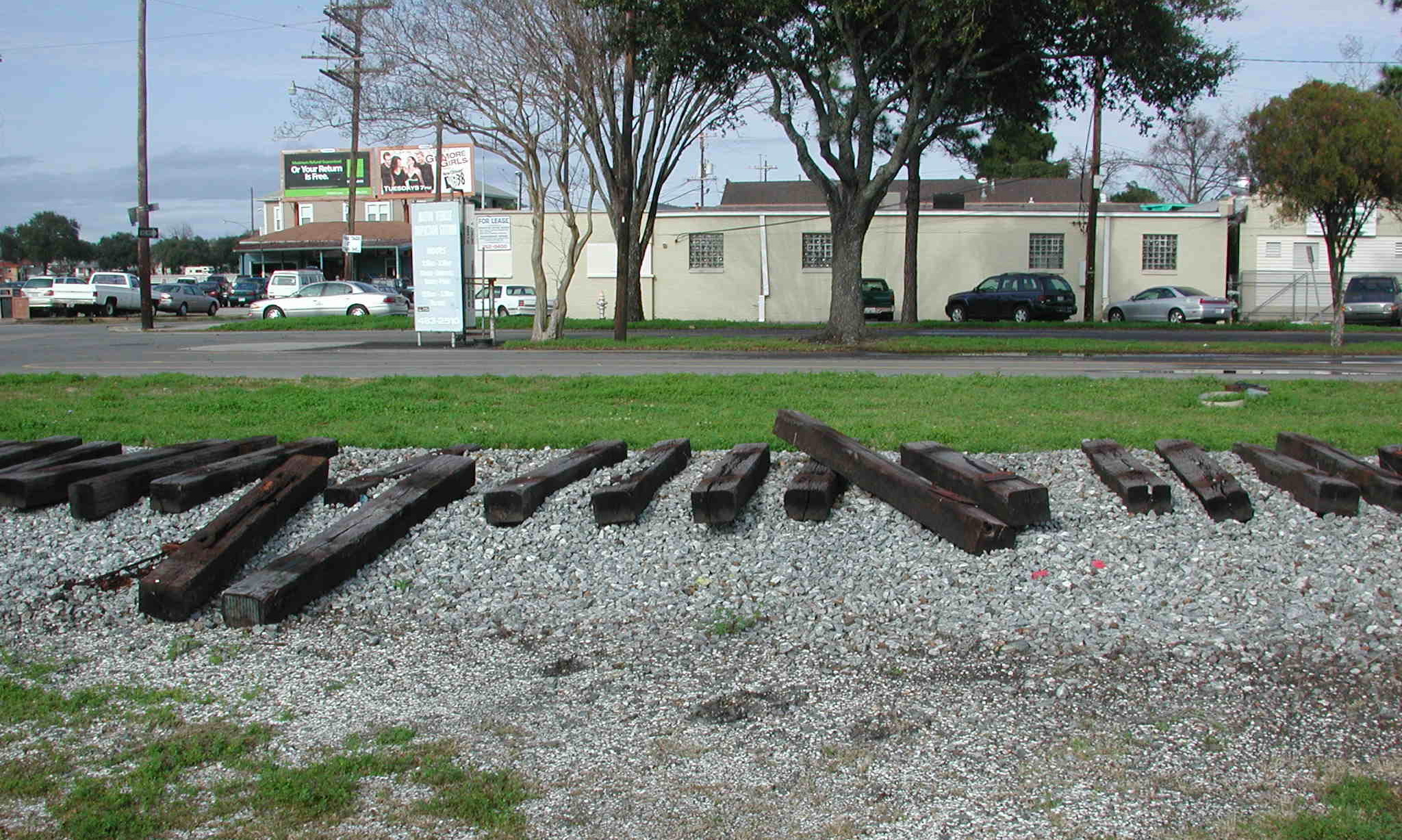 Railroad ties after rail removal. Dismanteling unused rail line. New Orleans, February 2005. Hagen Avenue at the end of Bayou St. John. Pre-Katrina "brake tag" (motor vehicle inspection) station seen in background.